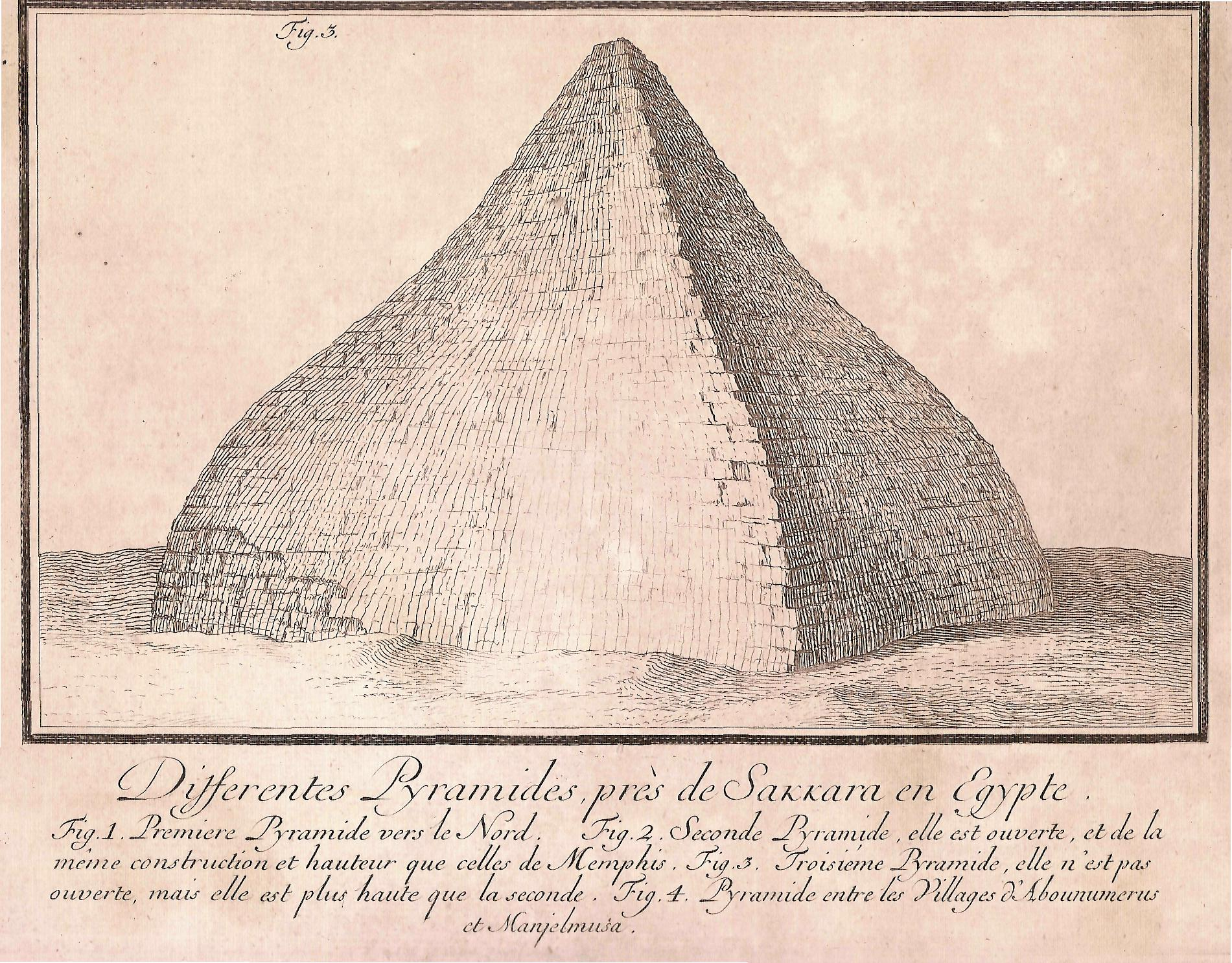 The Bent Pyramid in the 18th century.